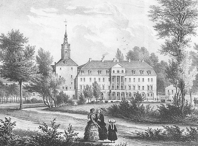 Dominion Lockwitz (nearby Dresden): Castle and Church